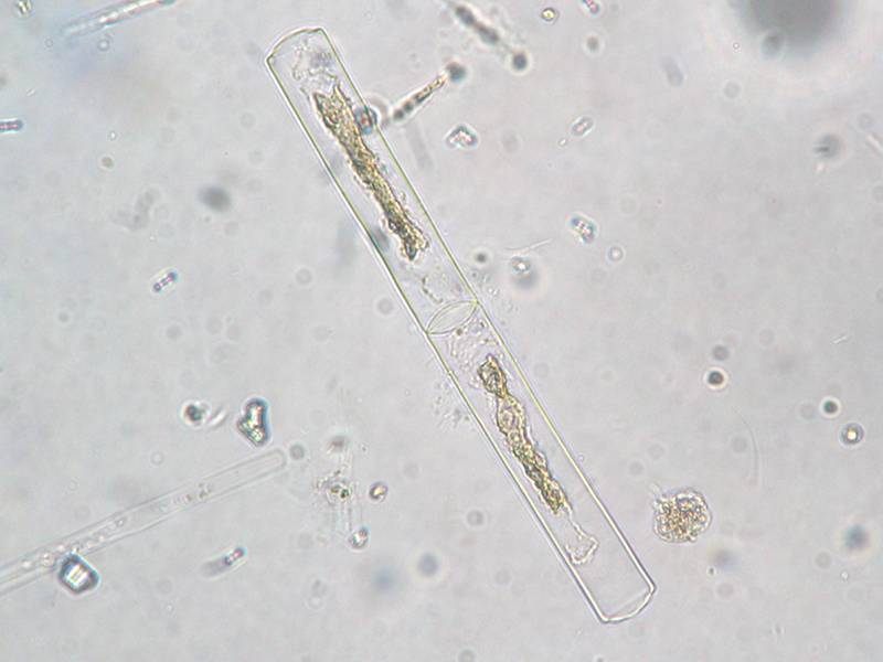 This work is free and may be used by anyone for any purpose. If you wish to use this content, you do not need to request permission as long as you follow any licensing requirements mentioned on this page.